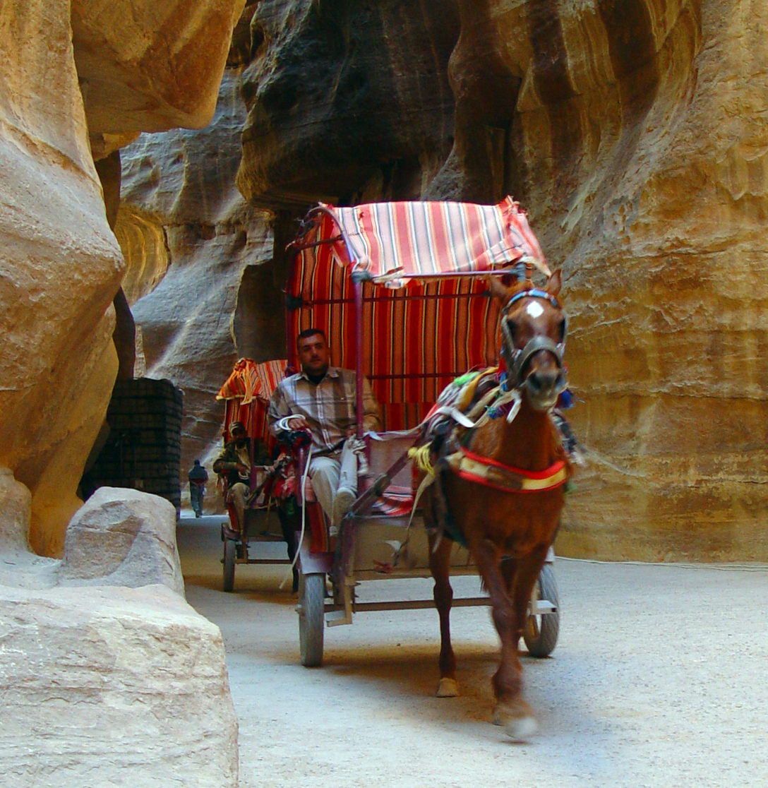 Tourist carts in Petra Siq (Jordan)